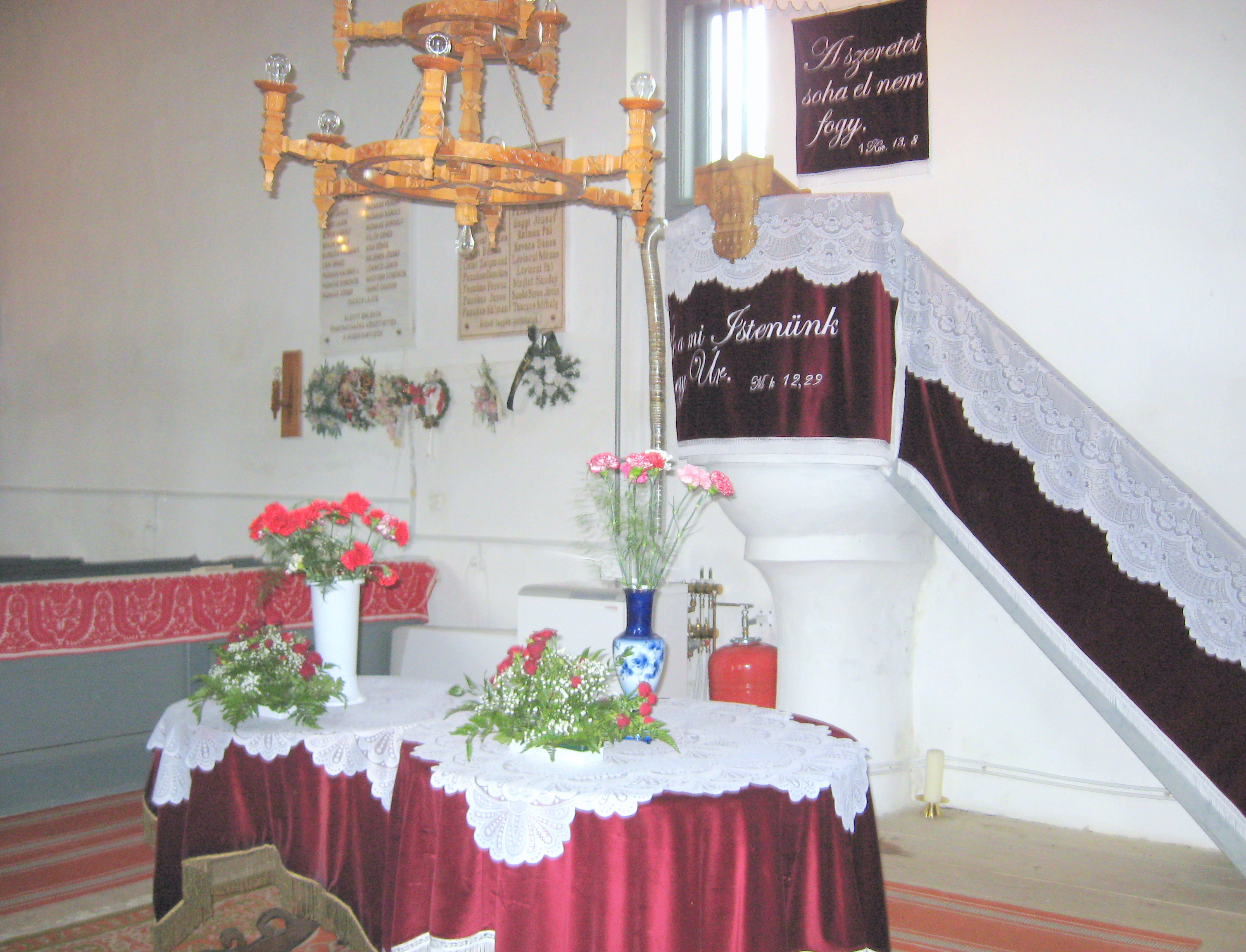 Unitarian church in Filiaș, Harghita county, Romania